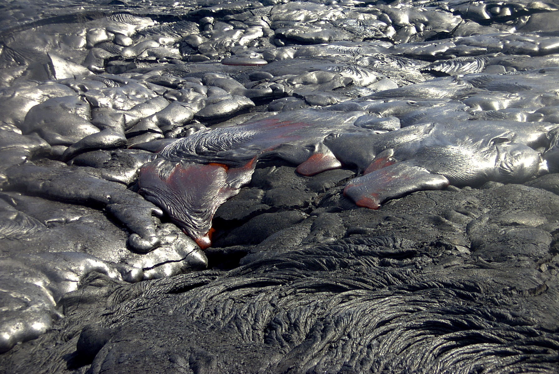 Active pahoehoe lava flow, Kilauea, Hawaii Volcanoes National Park, Hawaii